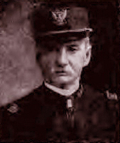 William Sully Beebe, Medal of Honor, United States Military Academy